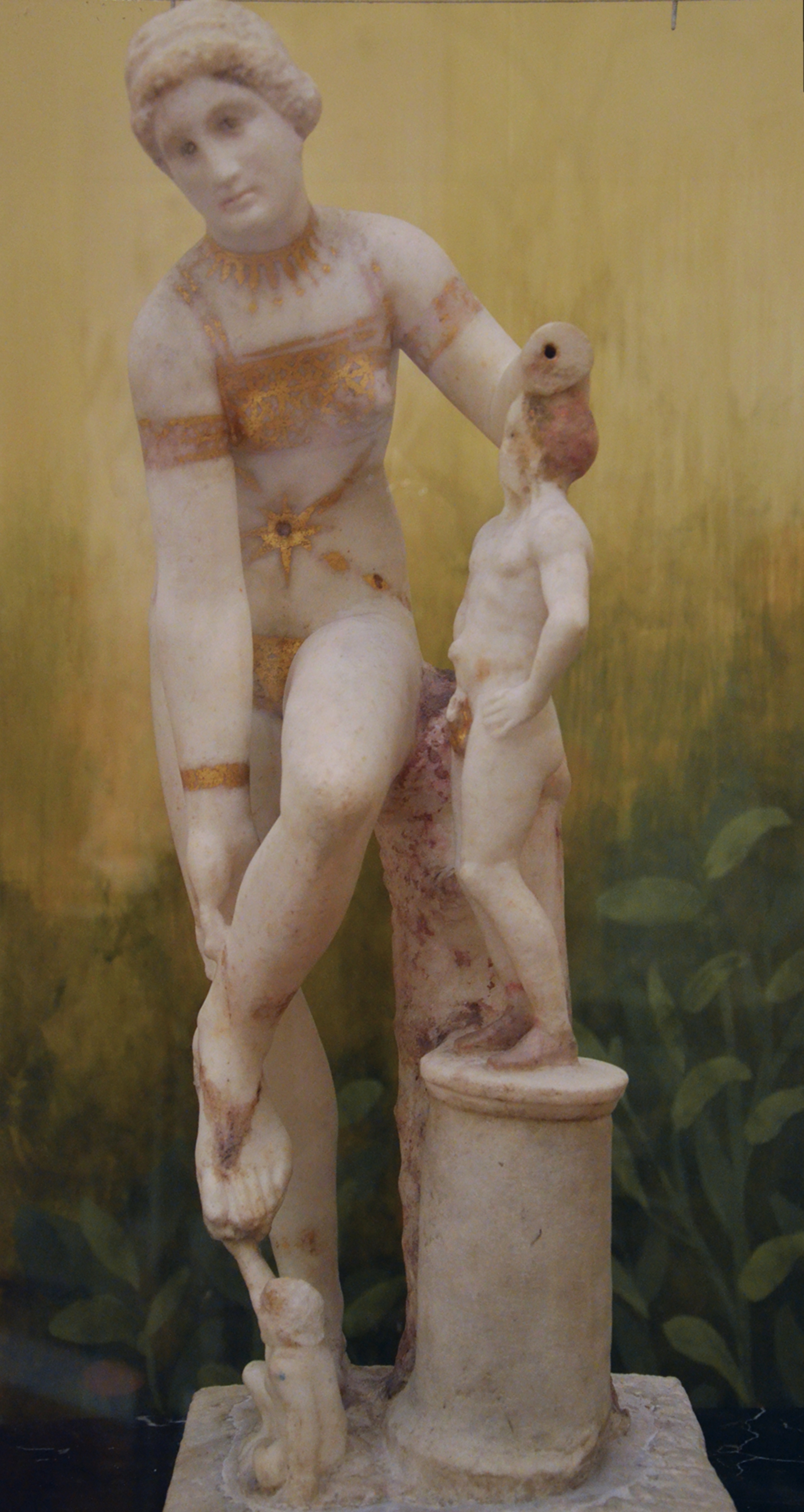 The Goddess is leaning with her left arm against a figure of Priapus standing, naked and bearded, positioned on a small cylindrical altar. Aphrodite, almost completely naked, wears only a sort of costume. The 'bikini', for which the statuette is famous, is formed by gilding which is also on Priapus’ phallus.